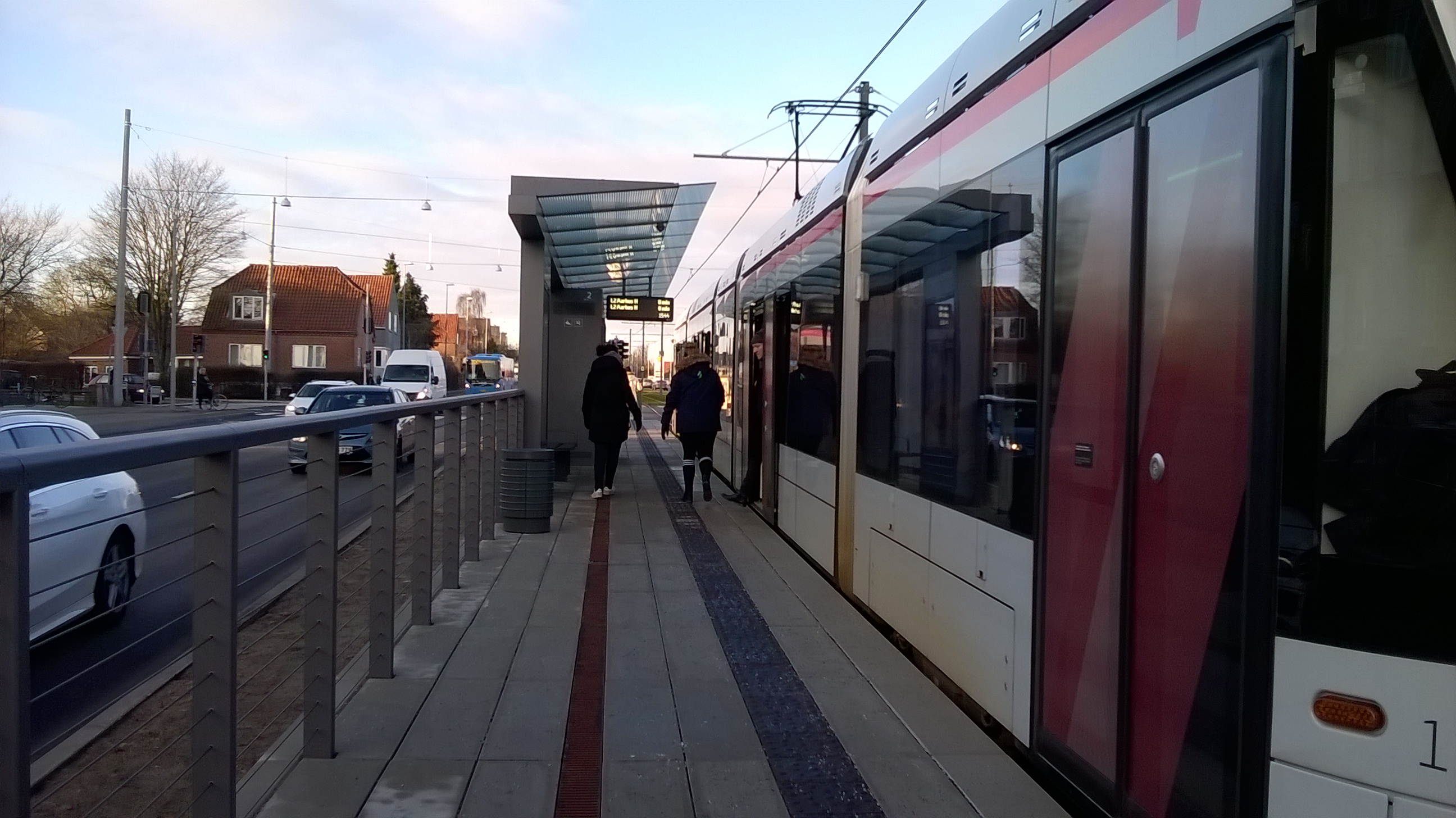 Stockholmsgade Station.